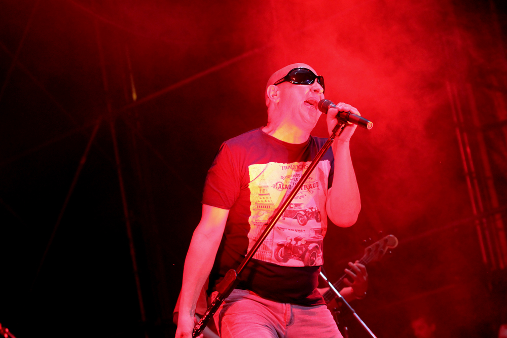 Ezeiza, 08 de febrero de 2015 -En el marco la campaña "Verano de emociones", organizada por Presidencia de la Nación en conjunto con el Ministerio de Cultura de la Nación se presentaron Tita Print, Los Amados y el cierre estuvo a cargo de La Mosca.